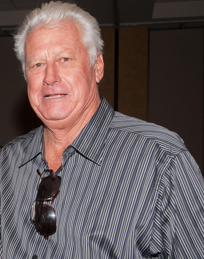 Former MLB player and manager Dallas Green at a SABR event in 2009. The SABR Office, via Flickr. This file has been extracted from another file: Hank Mason and Dallas Green.jpg